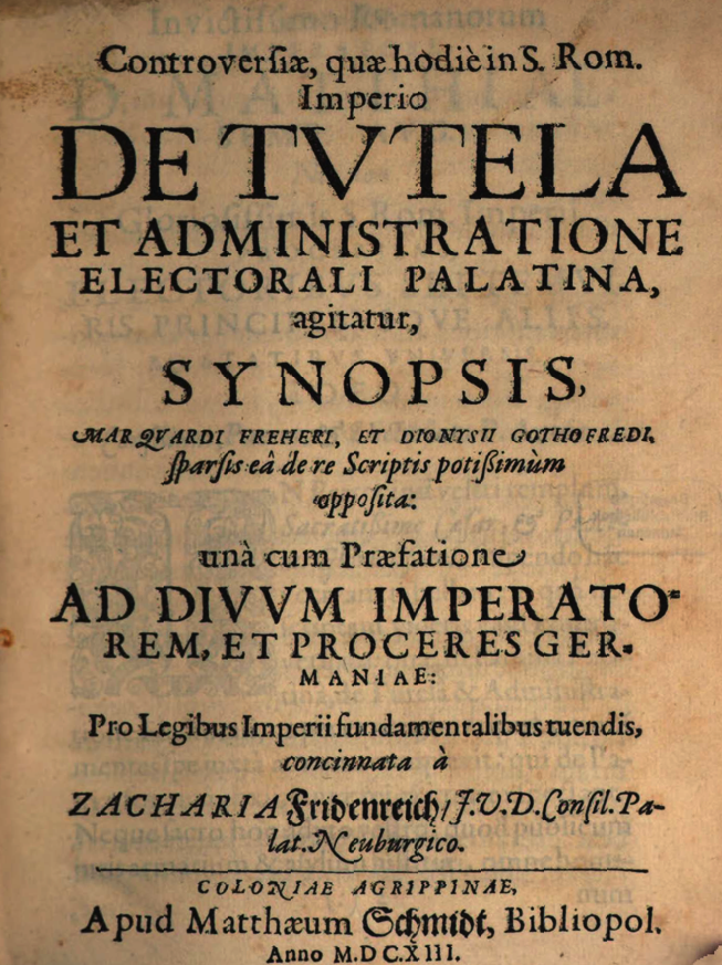 If you can, help make this description accessible to all by translating it into other languages – thanks!